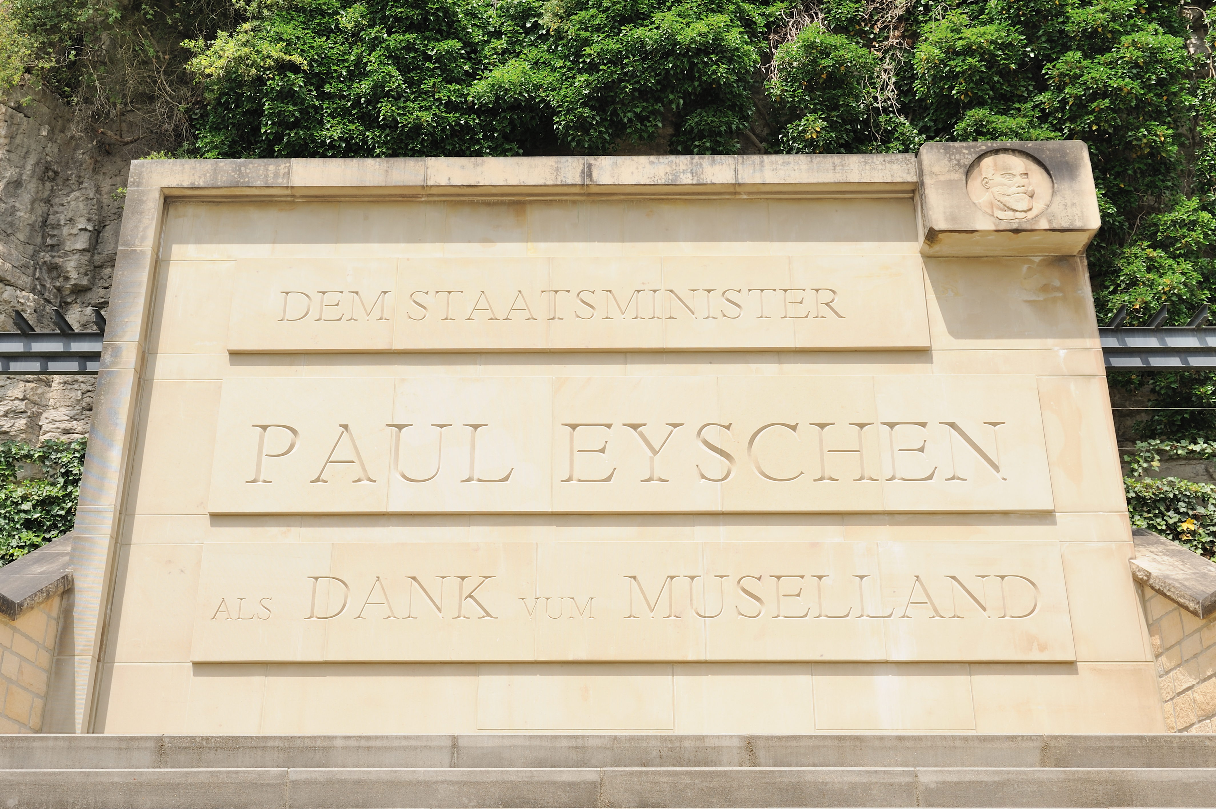 Monument at Stadtbredimus, Luxembourg, commemorating the former Luxembourg Prime Minister Paul Eyschen (1841-1915)